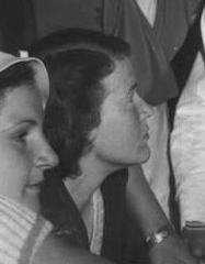 1932 Press Photo Swim coach Fred Cady, jennie Cramer, Moreen Forbes - nes40426. Left-right: Jenny Cramer, Norene Forbes